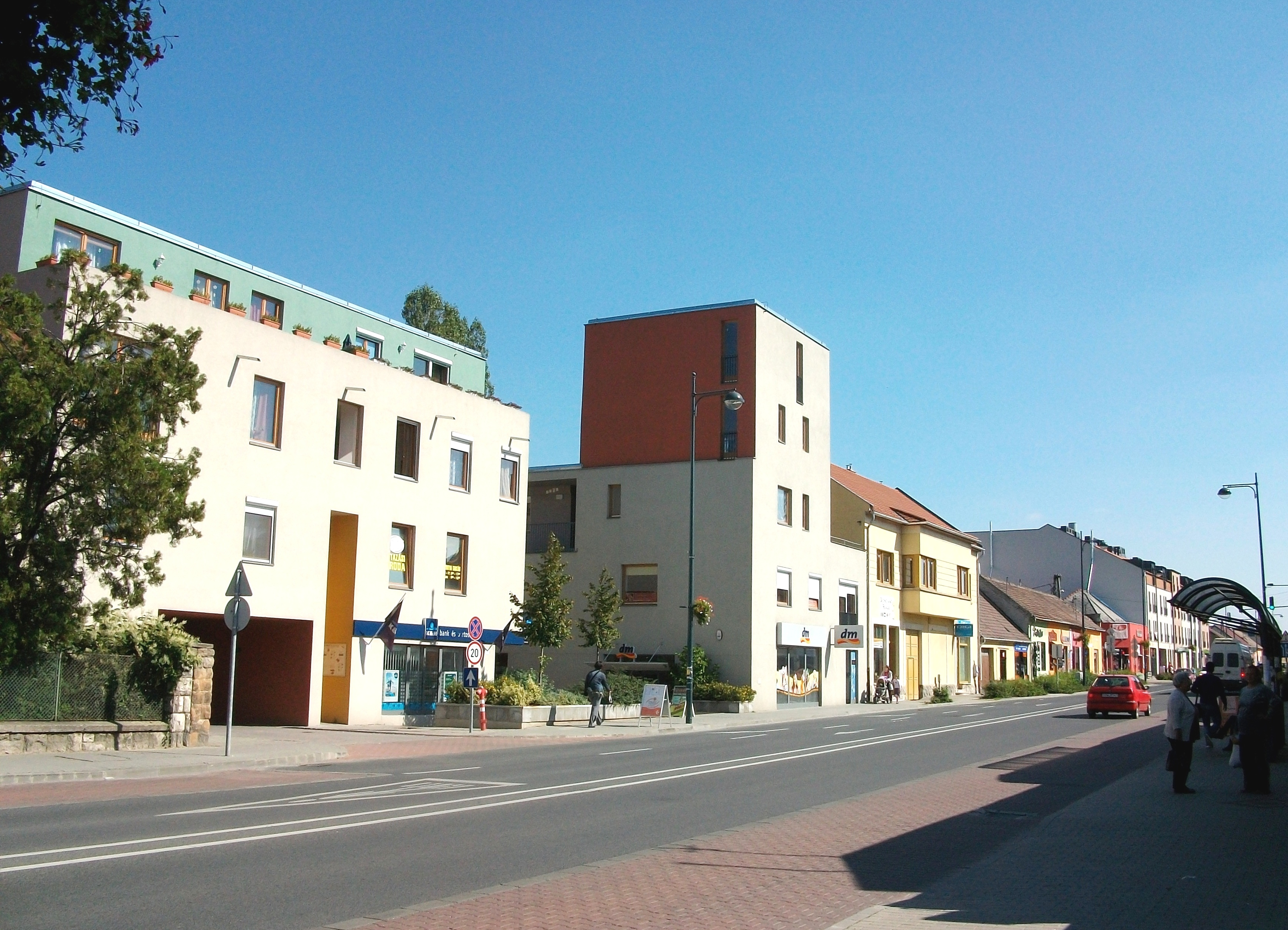 Town center, Dorog, Hungary